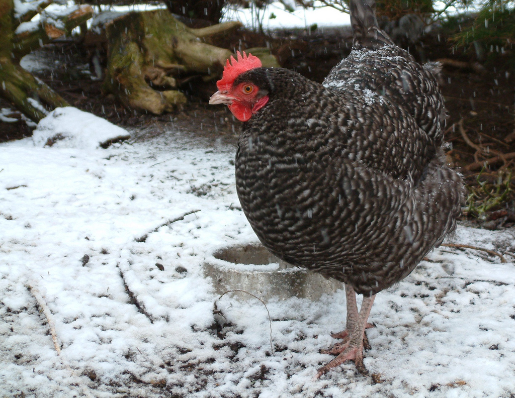 A Cuckoo Marans hen in winter. This barred feathering, called cuckoo, is the most common color for the Marans breed.